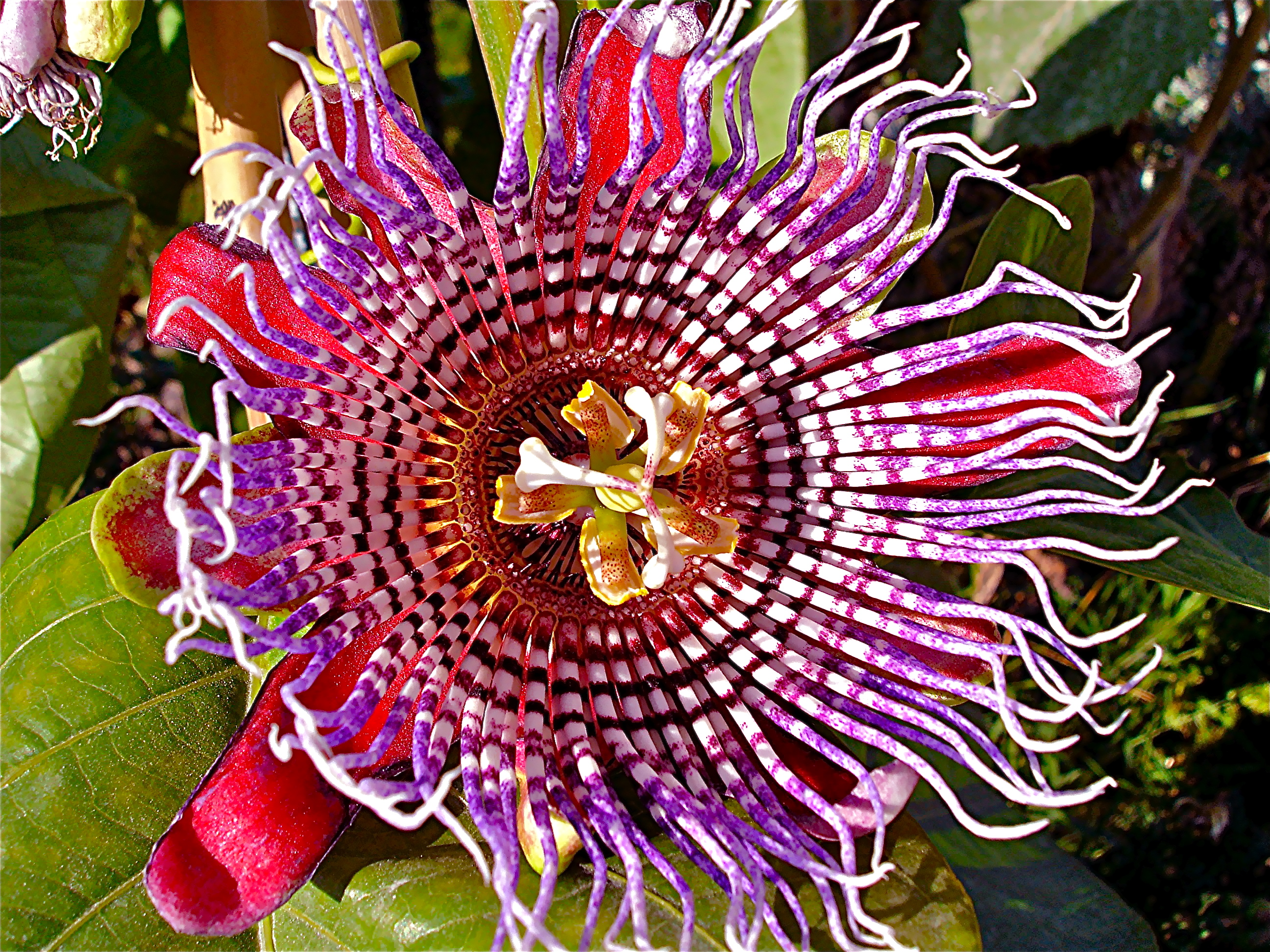 Passion flower (Passiflora × decaisneana) - Jardin des Plantes, Paris, France